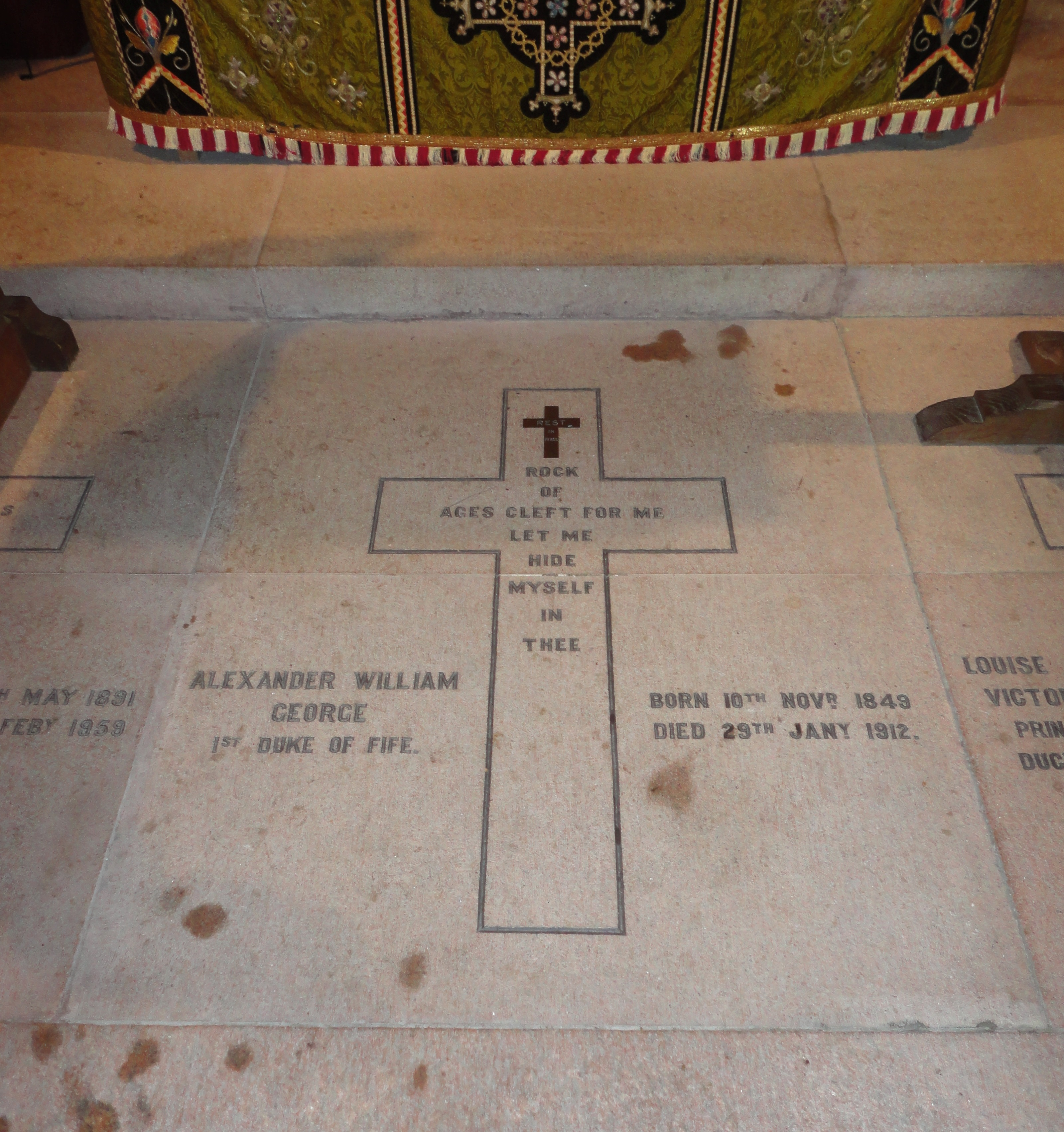 Braemar, Mar Lodge Estate, St Ninian's Chapel: Grave of the 1st Duke of Fife (1849–1912)